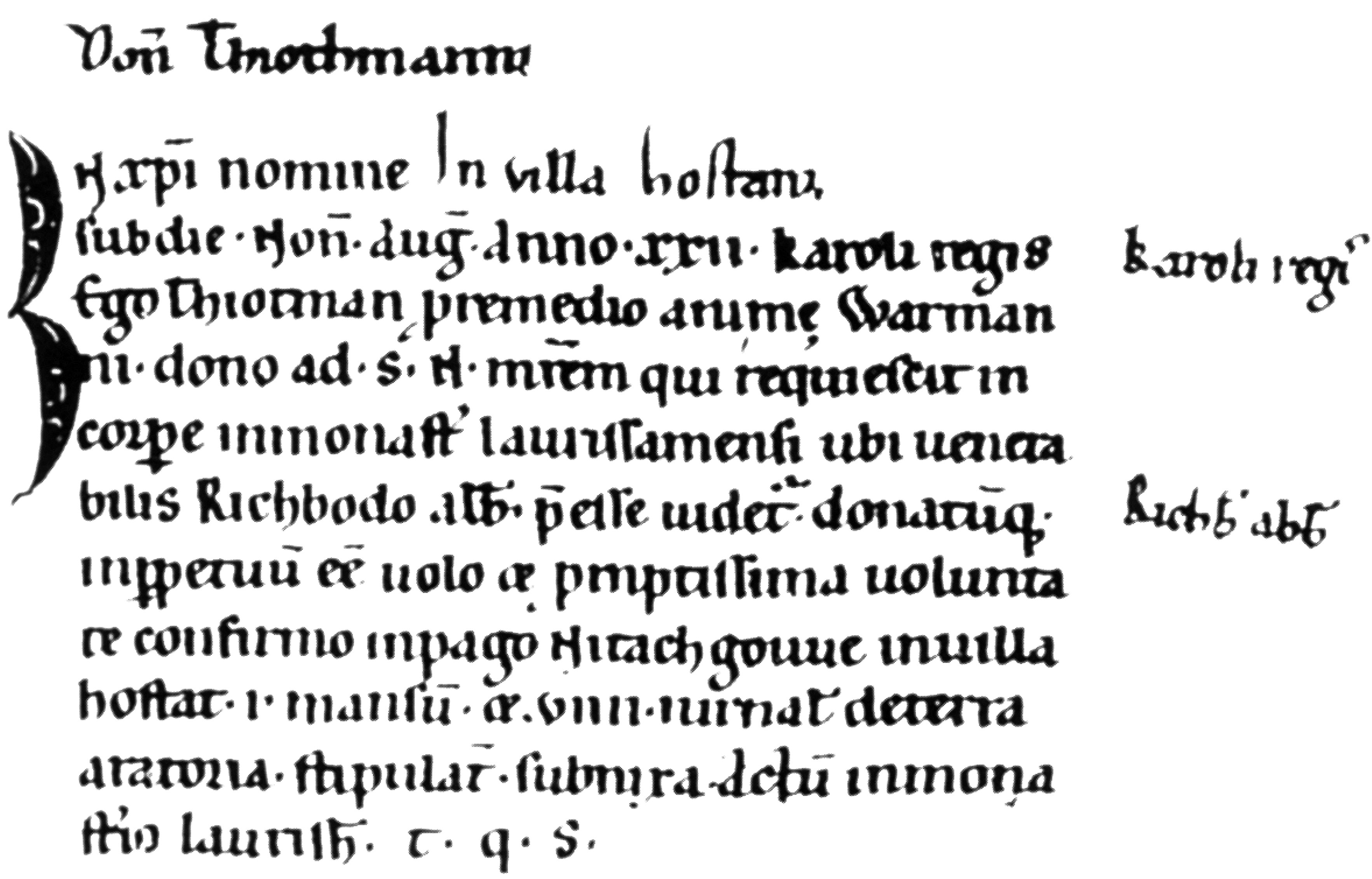 First mention of the village Hostat, today Frankfurt-Höchst, in a Latin deed from 790. Copy from the 12th century. The deed's text in English In the name of Christ in the village of Hostat On August 5 in the 22nd year of King Charles, I, Thiotman, donate for the salvation of Warmann to the saint martyr Nazarius, whose body rests in the monastery Laurissa, where the venerable Richbodo is abbot, and pledge to endow as a permanent donation and from my own free will, in Nitachgau in the village of Hostat a hide and nine acres of arable land. Treated in the monastery Laurissa at the time mentioned above.